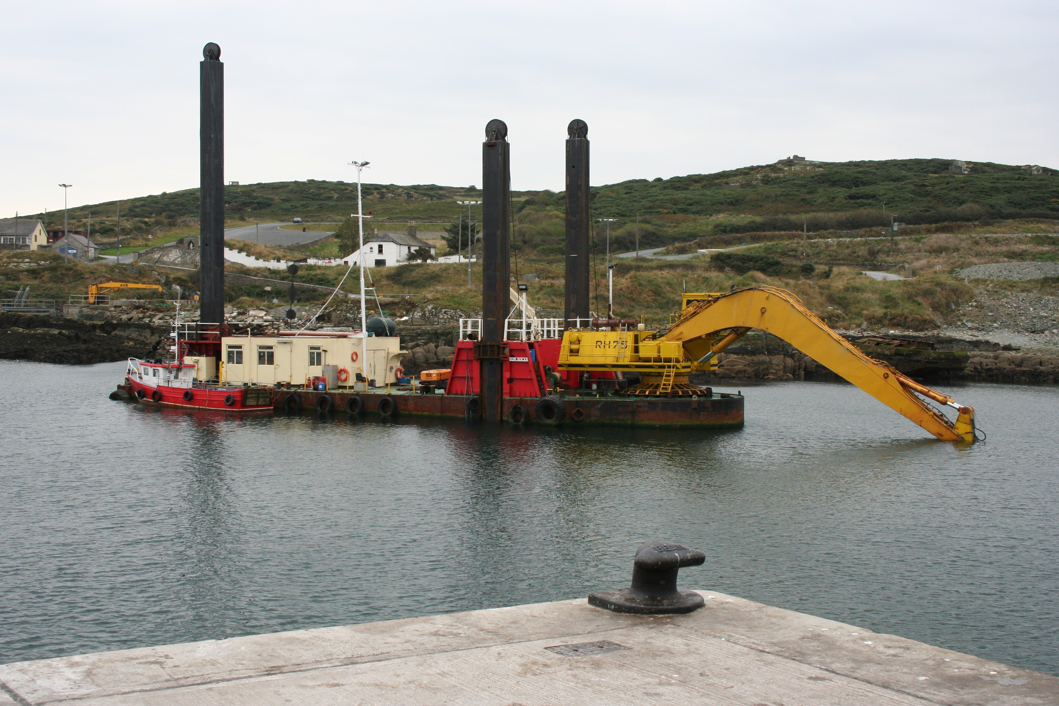 Vessel in Port Oriel Credit: A Peter Clarke image